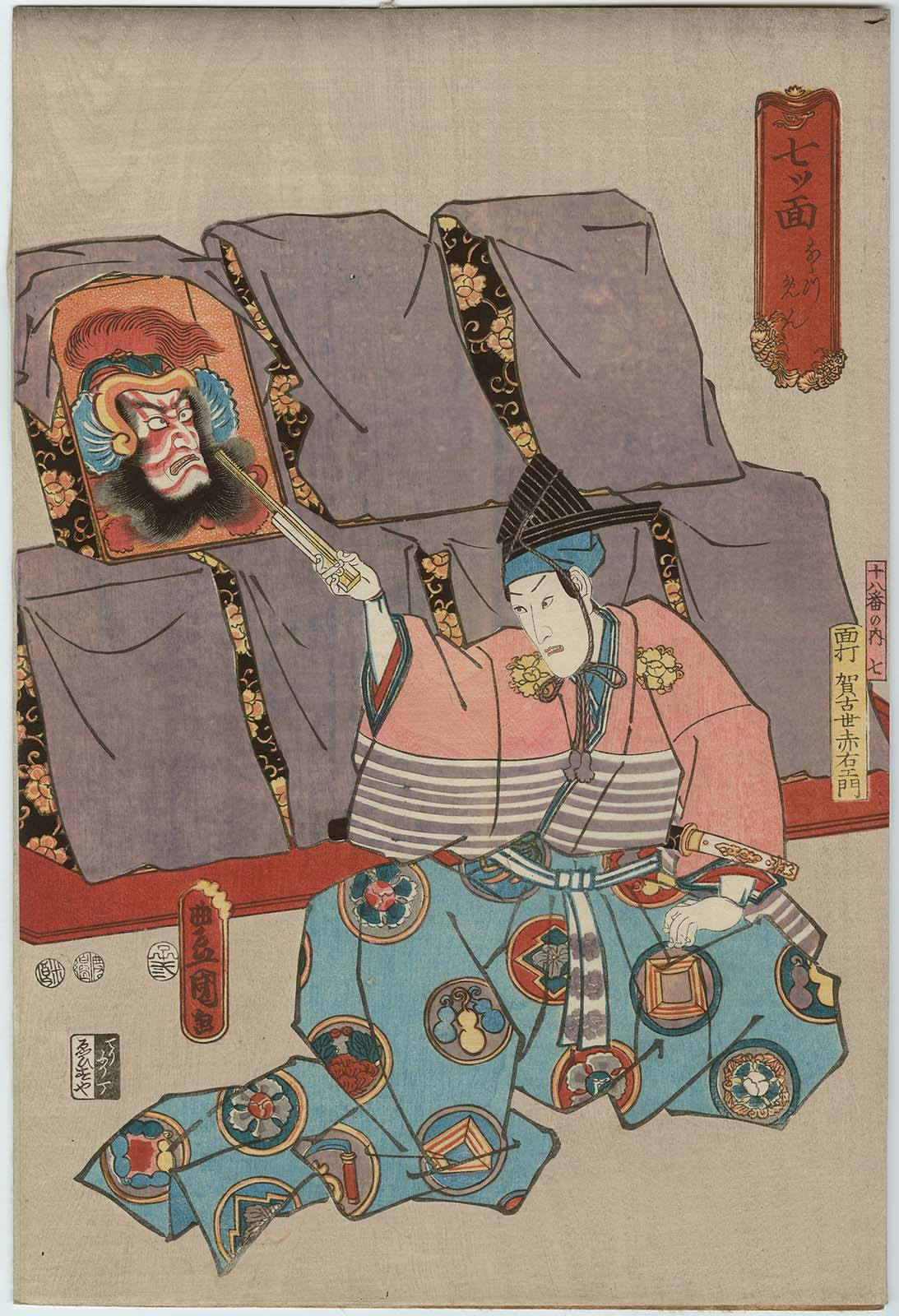 Part of the series The Eighteen Great Kabuki Plays, No. 07